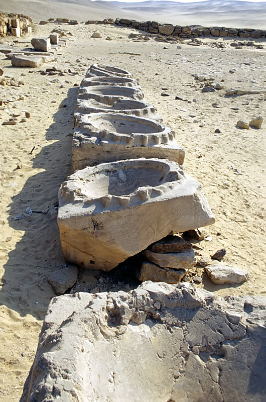 Vessels at the courtyard of the Sun temple of Niuserre, Abu Ghurab, Egypt